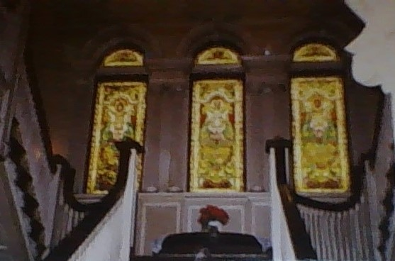 The gorgeous stained glass windows at the top of the main staircase in the Roberson House.